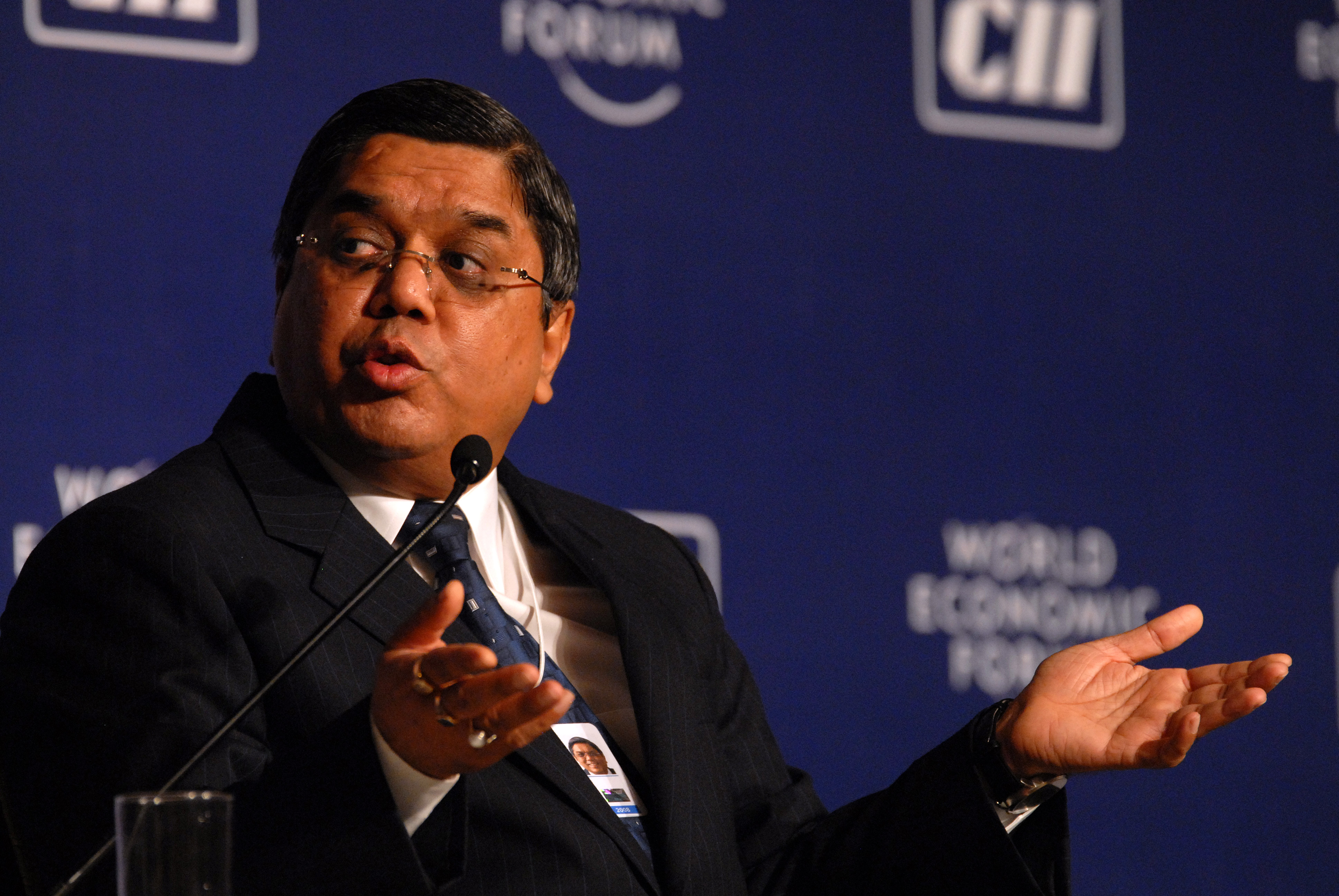 Tulsi R. Tanti, Chairman and Managing Director, SuzlonGroup.